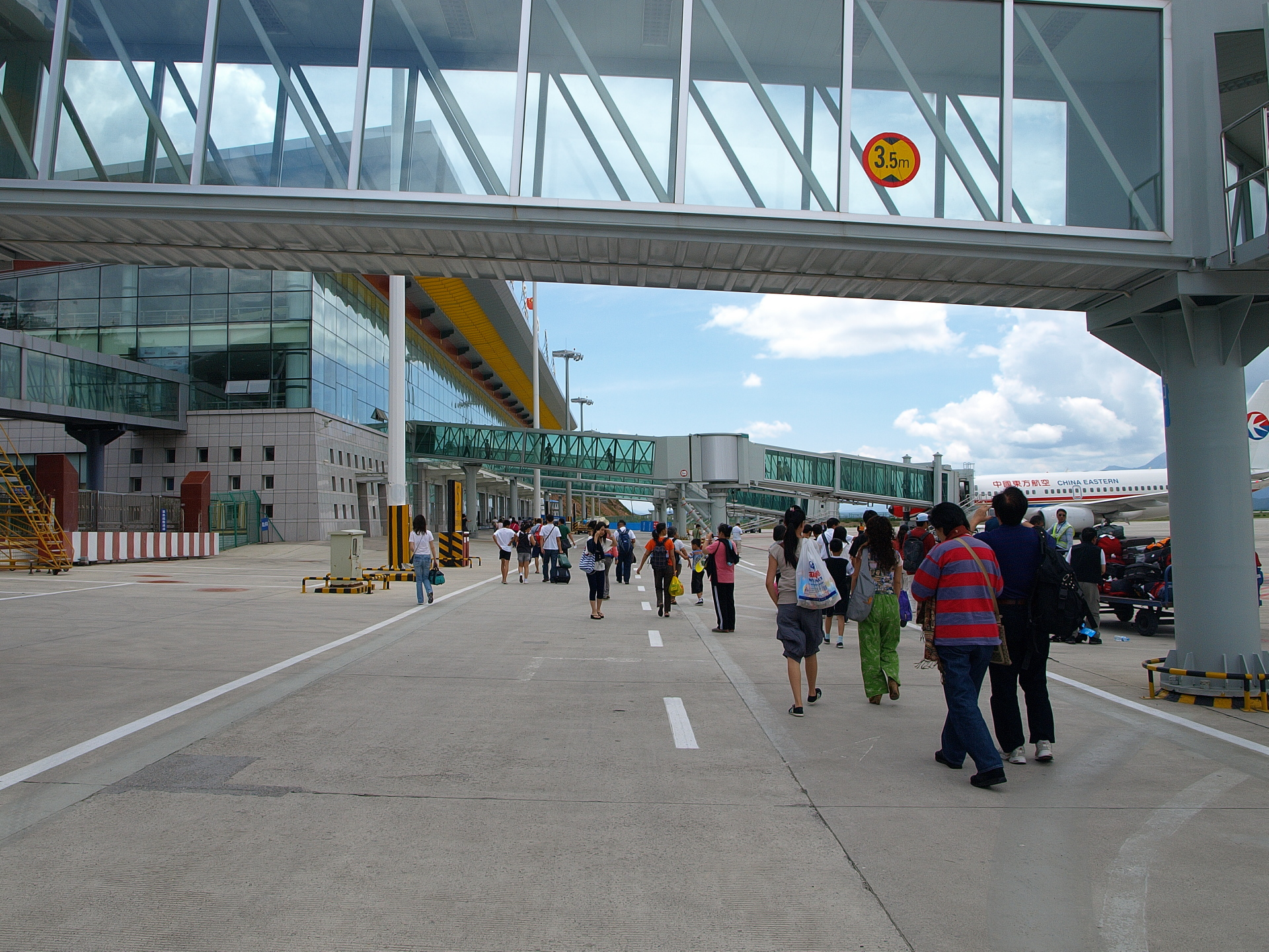 Sichuan Jiuzhaihuanglong Airport(Apron)